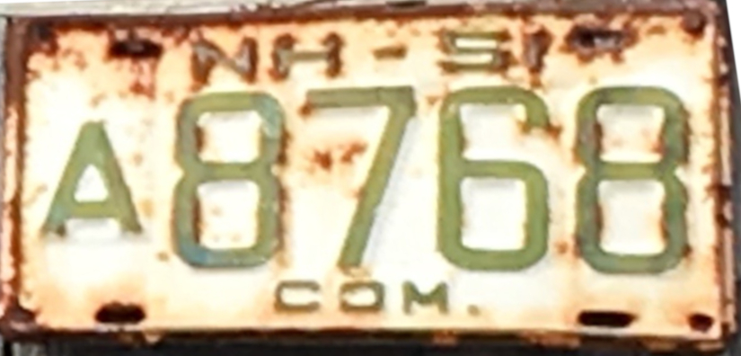 1951 commercial New Hampshire license plate, number A8768.